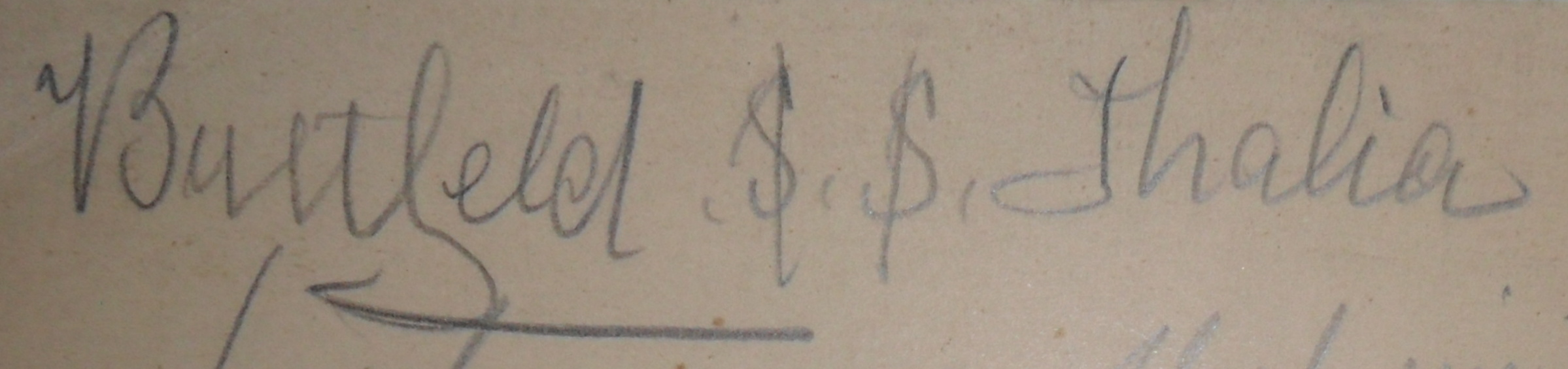 Autograph of Karl von Bretfeld (captain of SS Thalia)